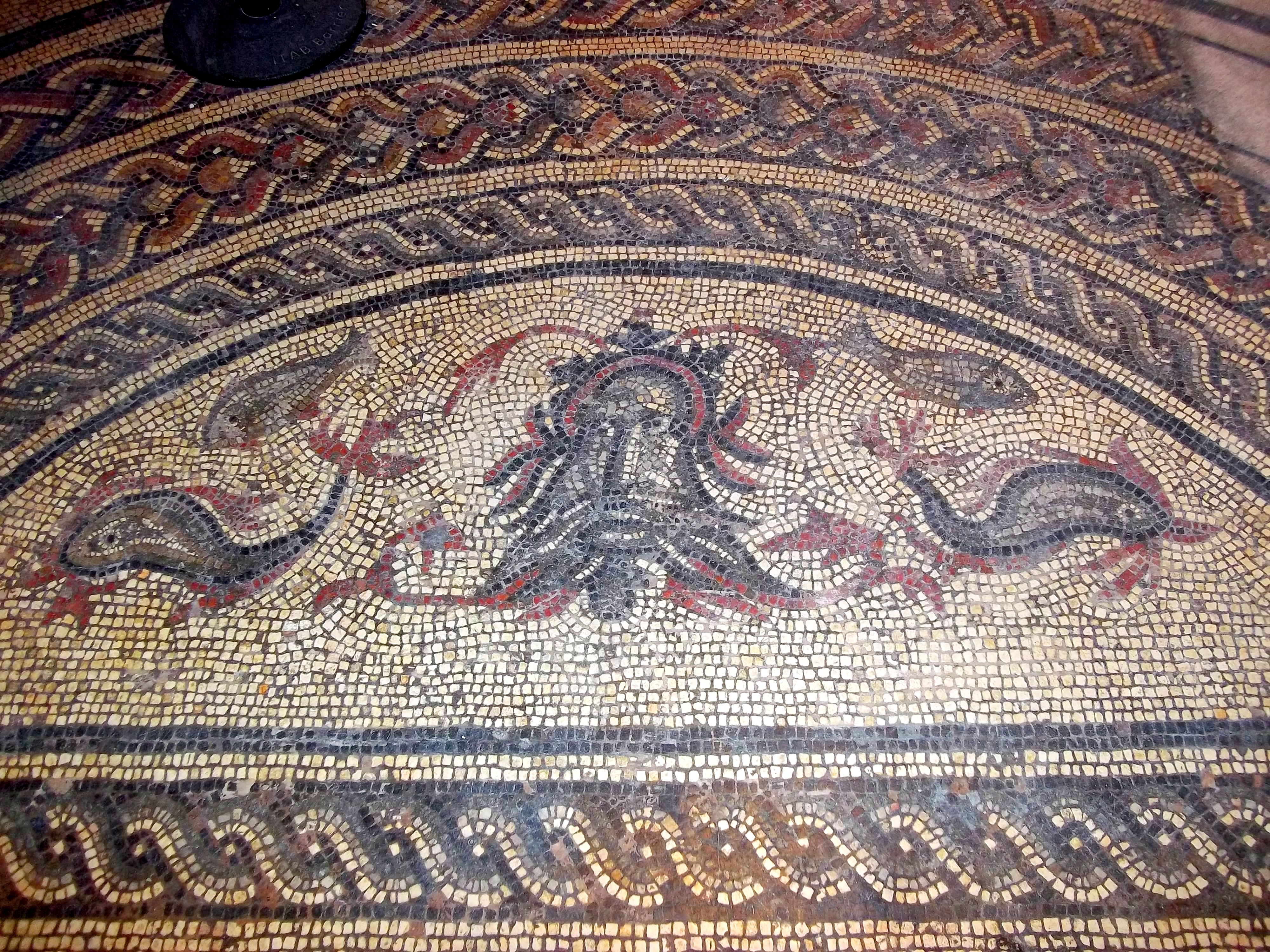 Detail of the Fordington Roman Mosaic Pavement, found in 1903 on the site of Lott and Walnes's Foundary, High Street, Fordington, and lifted in 1927. The head in the apse is of Oceanus flanked by two dolphins and two fish. The god's hair and beard are seaweed. On display in the Dorset County Museum.